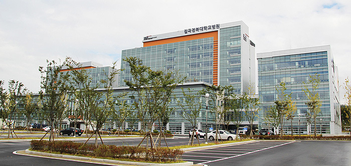 KNU University Hospital